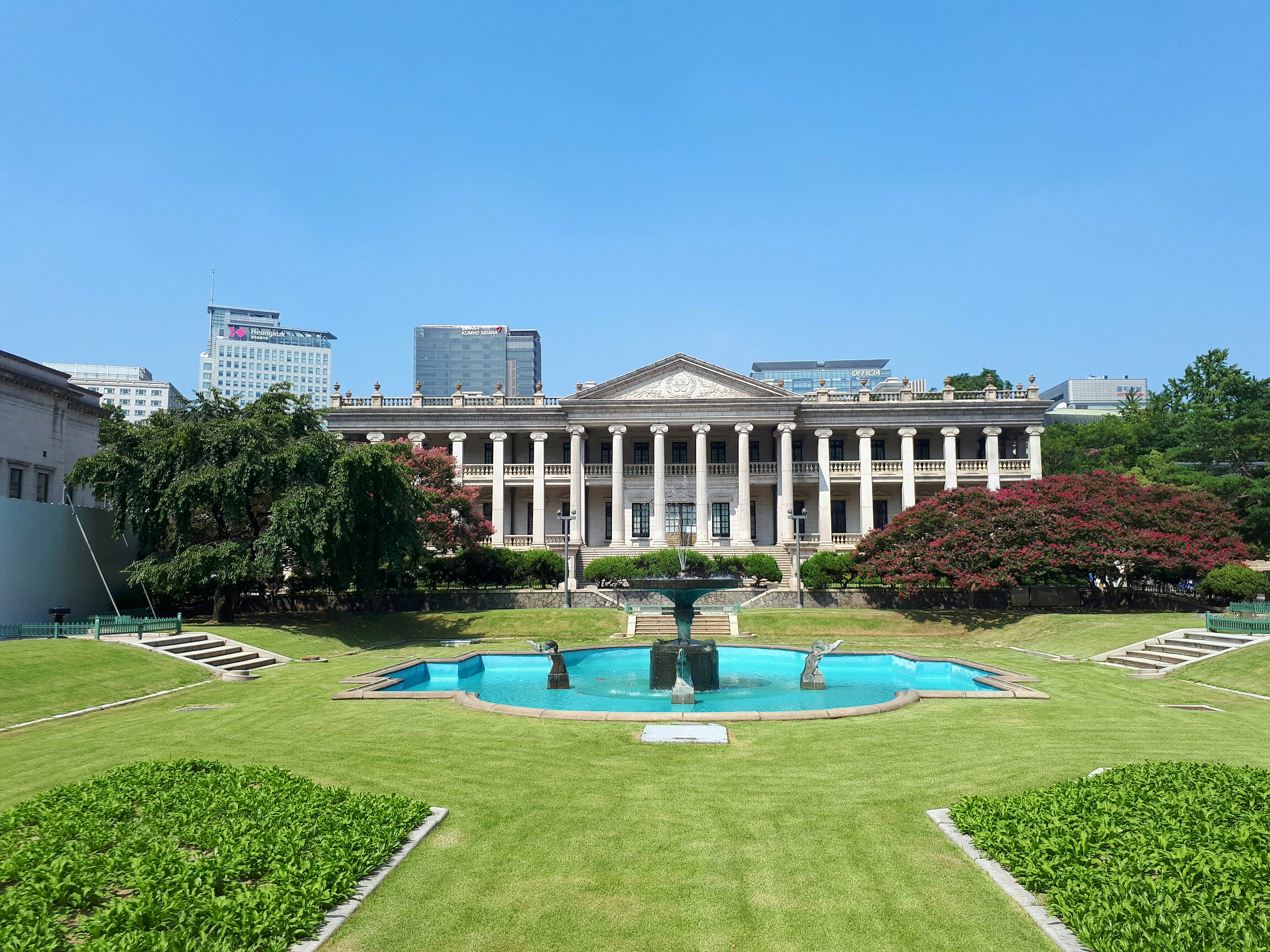 Deoksugung Seokjojeon and Western Style Garden, designed by British Architect G. R. Harding